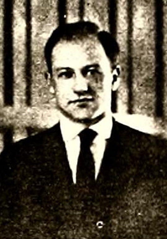 S. R. Derby, Lake Forest Athletic Director